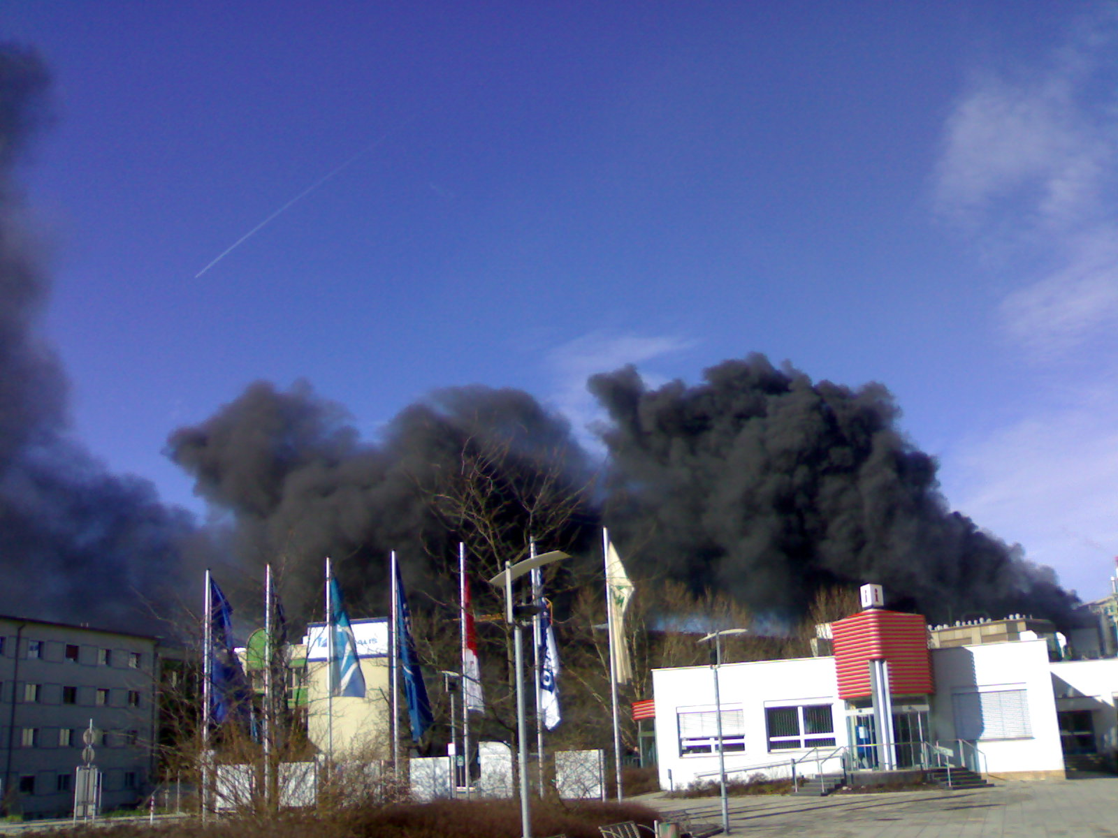 Fire in the NPK fertilizer compound of Agrolinz Melamine International in Linz, Austria.